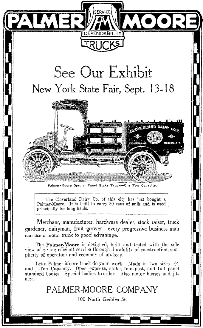 Palmer-Moore Company - 1915 Advertisement